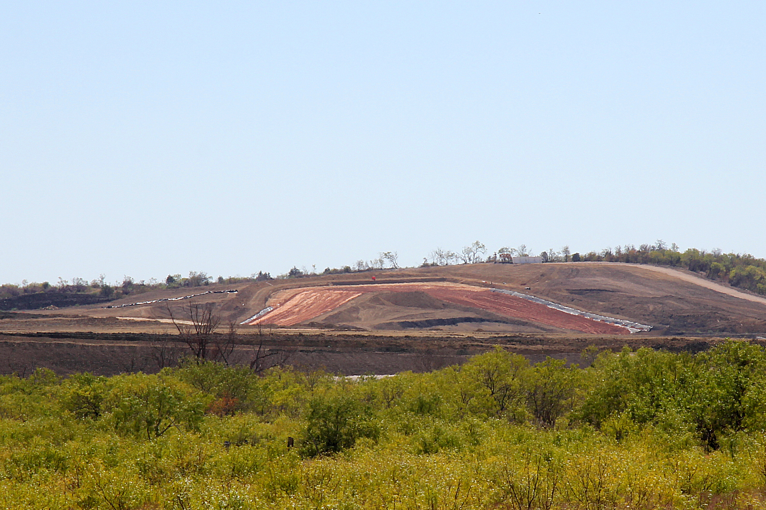 Turn one takes shape at the Circuit of the Americas.